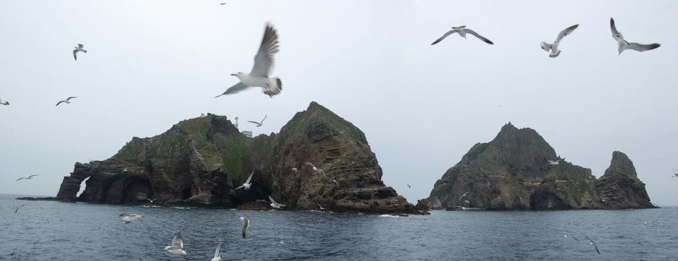 The Liancourt Rocks, known as Dokdo (or Tokto, 독도/獨島, literally "solitary island") in Korean, as Takeshima (竹島, Takeshima, literally "bamboo island") in Japanese.